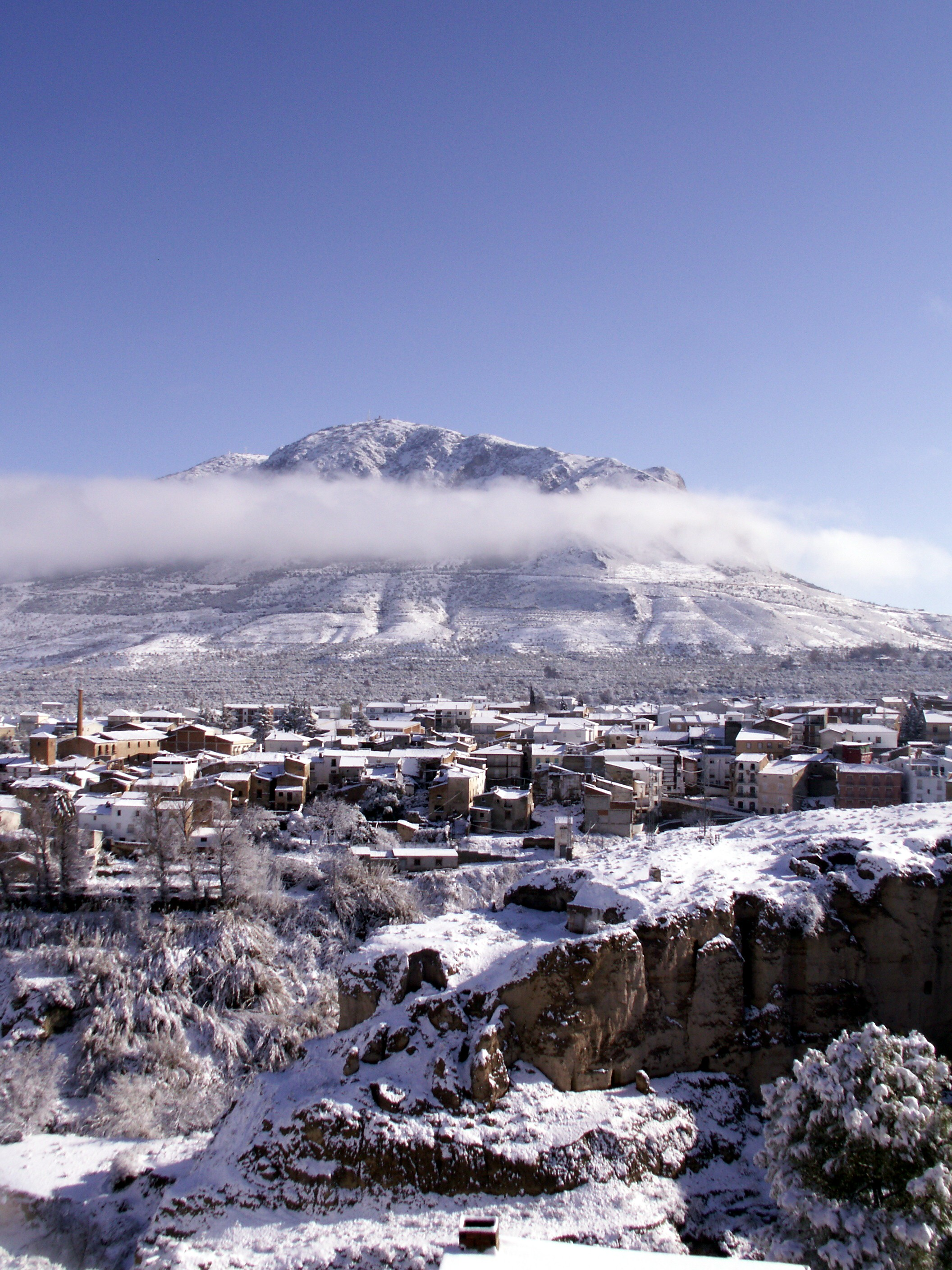 Jabalcón in Zújar, Spain